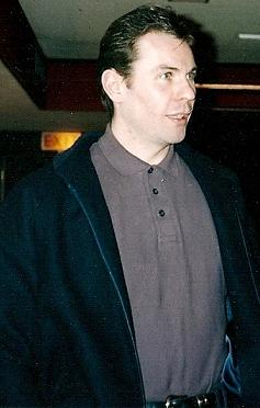 Brian McClair, former Man. United player, in 1992